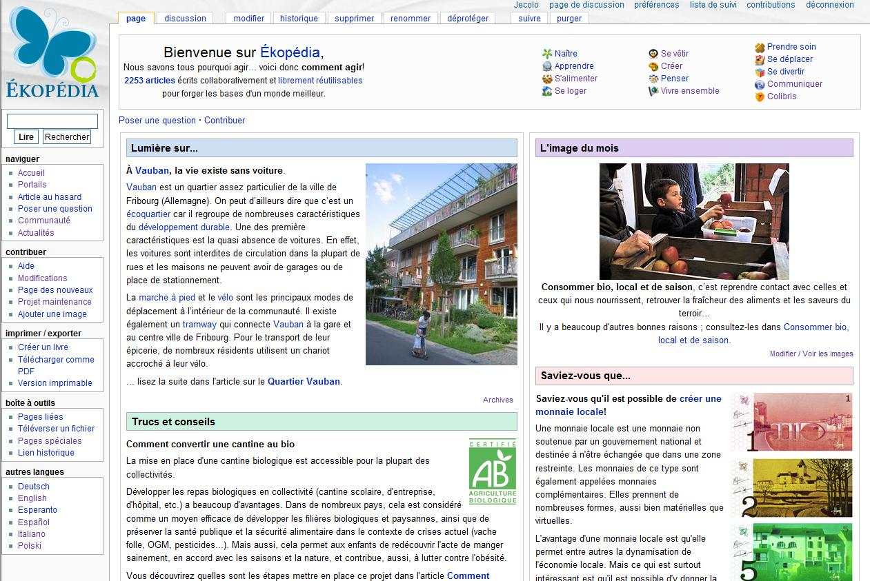 FR Ekopedia website screenshot.